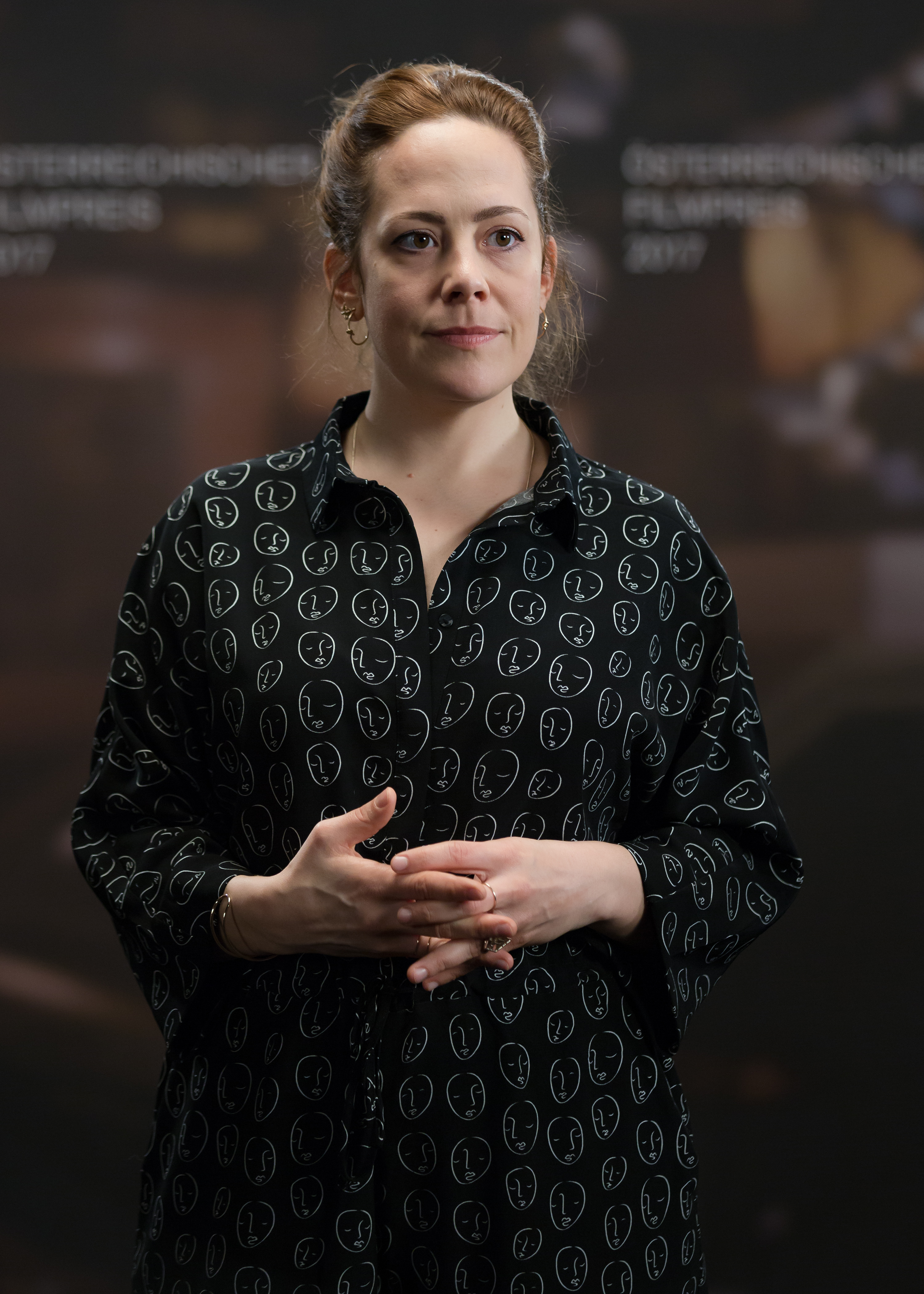 Katharina Mückstein, producer of Holz Erde Fleisch, at the Austrian Film Awards 2017 (Rathaus, Vienna,Austria).